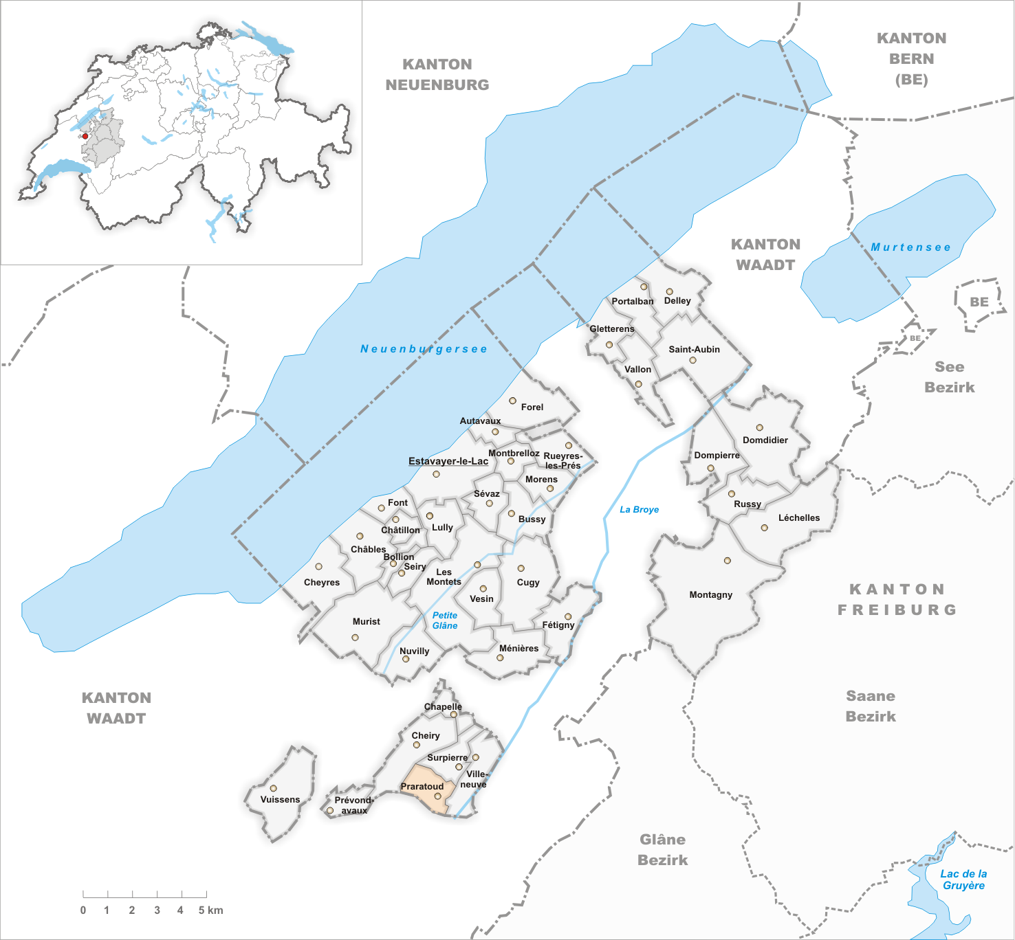 Municipality Praratoud Artist: Tschubby